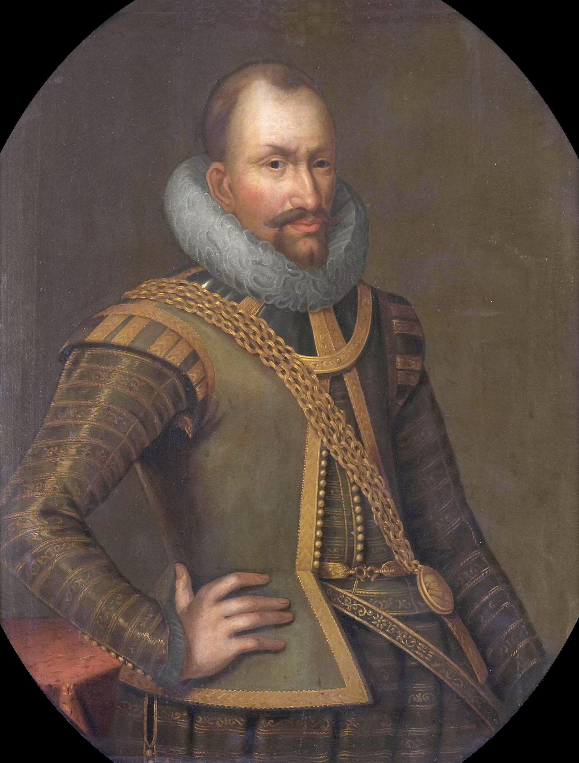 Portrait of Gerard Reynst (d. 1615), Governor-General of the Dutch East Indies from 1614 to 1615. Part of the Governors-general series.